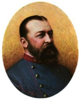 Portrait.